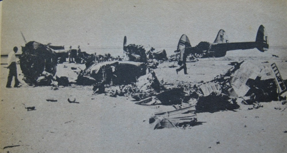 Trans World Airlines, Inc., near Cairo, Egypt, August 31, 1950